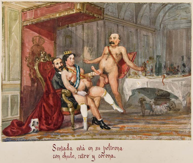 Vignette of the satirical saga Los Borbones en Pelota with the couplet "Sitting in her armchair, with scepter, pimp and crown.".